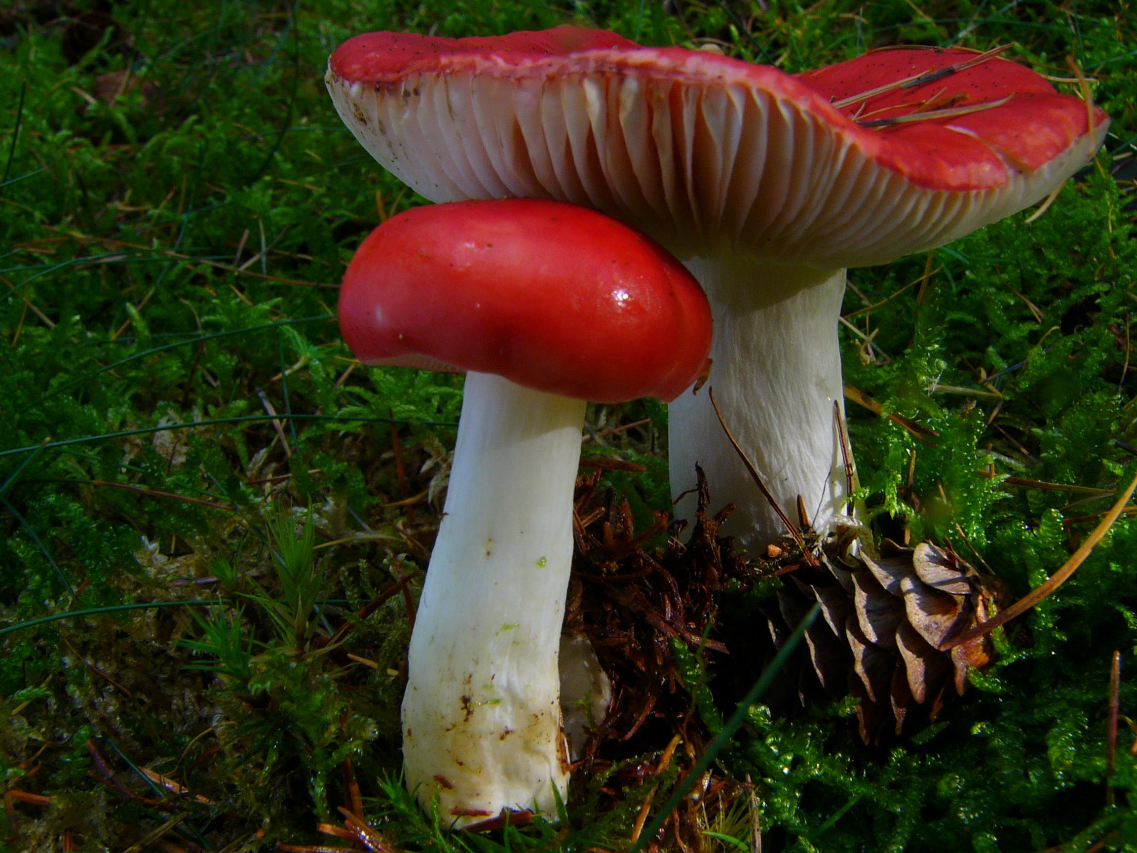 The making of this document was supported by the Community-Budget of Wikimedia Germany.